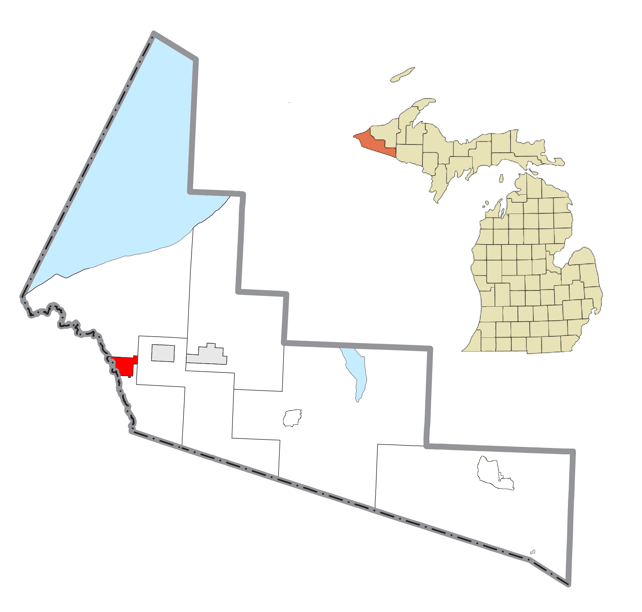 Ironwood, MI